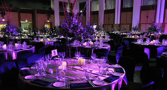 This photo depicts 'Great Hall', a venue in Canberra during the Midwinter Ball dinner